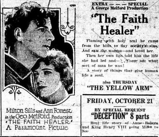 Newspaper ad for the American film The Faith Healer (1921) with Milton Sills and Ann Forrest, on page 5 of the October 14, 1921 The St. Louis Argus.